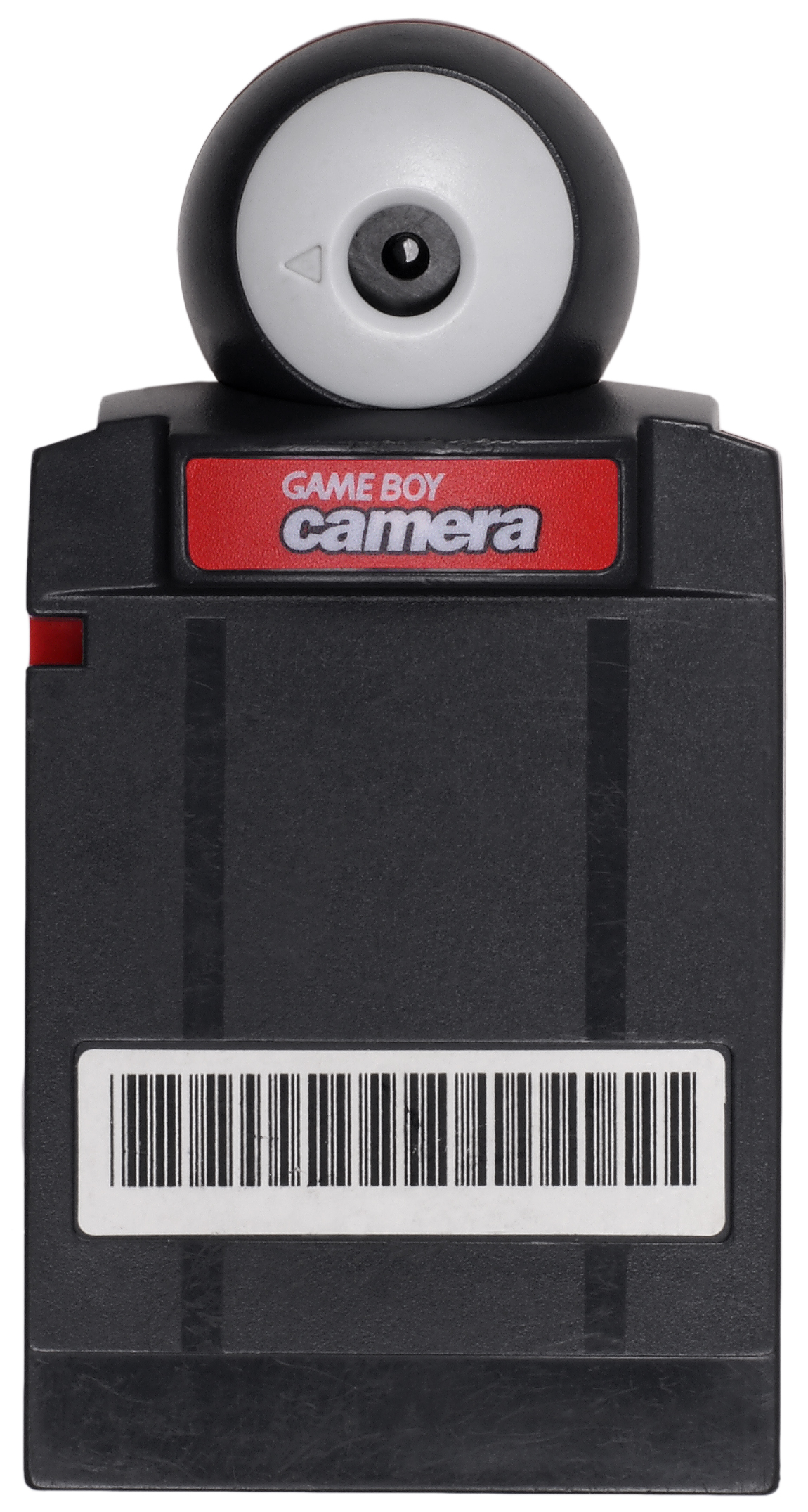 The Game Boy Camera, a simple digital camera made for the Game Boy line.